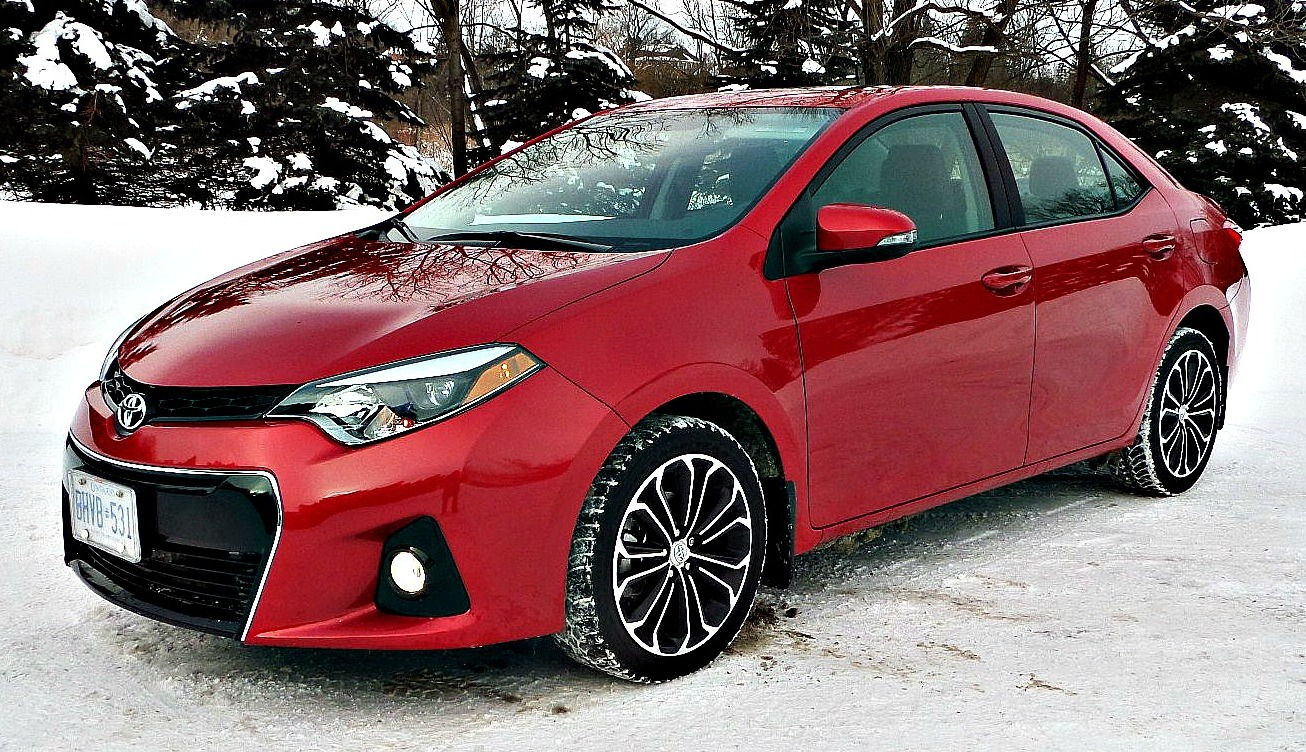 2014 Toyota Corolla S in Ontario, Canada. Designed in Japan , Assembled in Canada Note : This car is fitted with the optional manufacturer's 17-inch alloy rims.